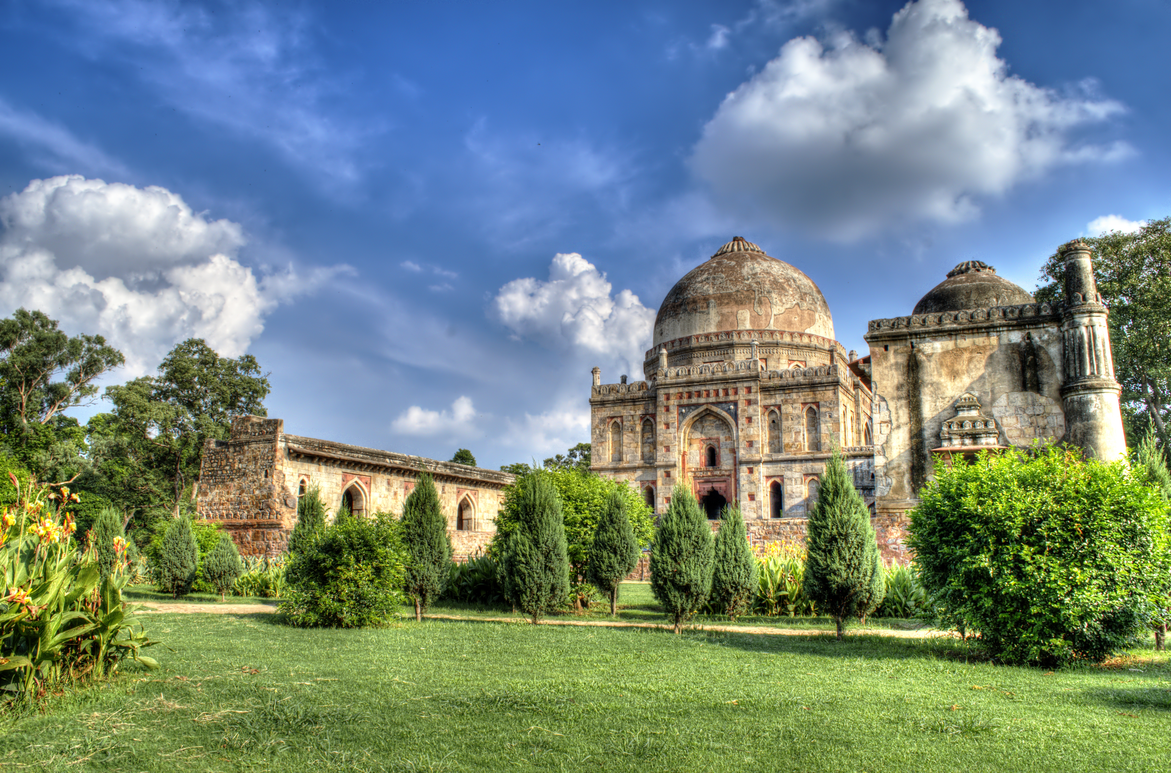 Lodhi Gardens on a bright sunny day